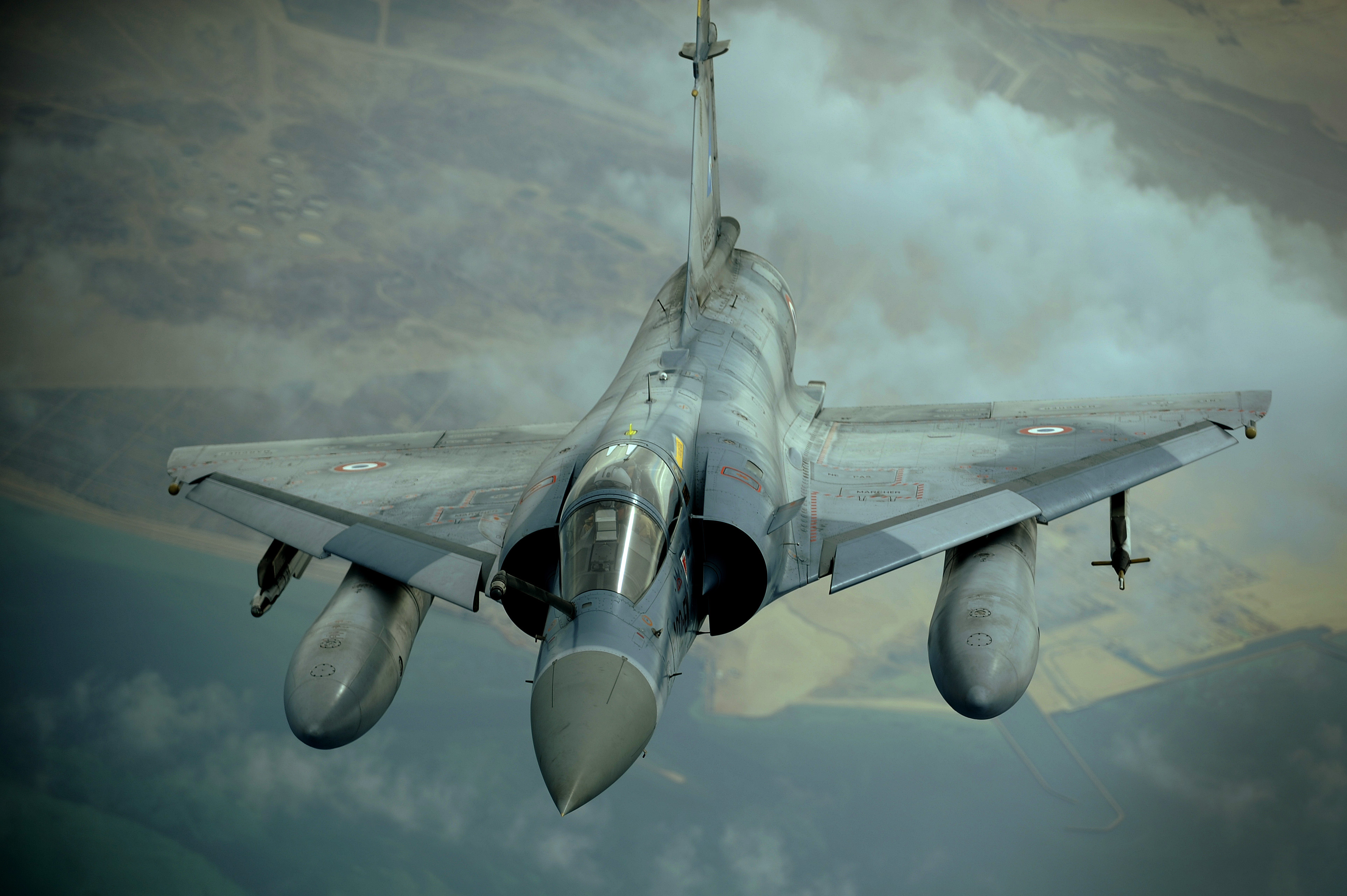 A French Mirage 2000 fighter moves away from a KC-10A Extender from the 908th Expeditionary Air Refueling Squadron after refueling during a multinational exercise Dec. 6, 2009, over Southwest Asia. Air crews from France, Jordan, Pakistan, the United Arab Emirates, the United Kingdom and the United States trained together in fighting a large-scale air war.